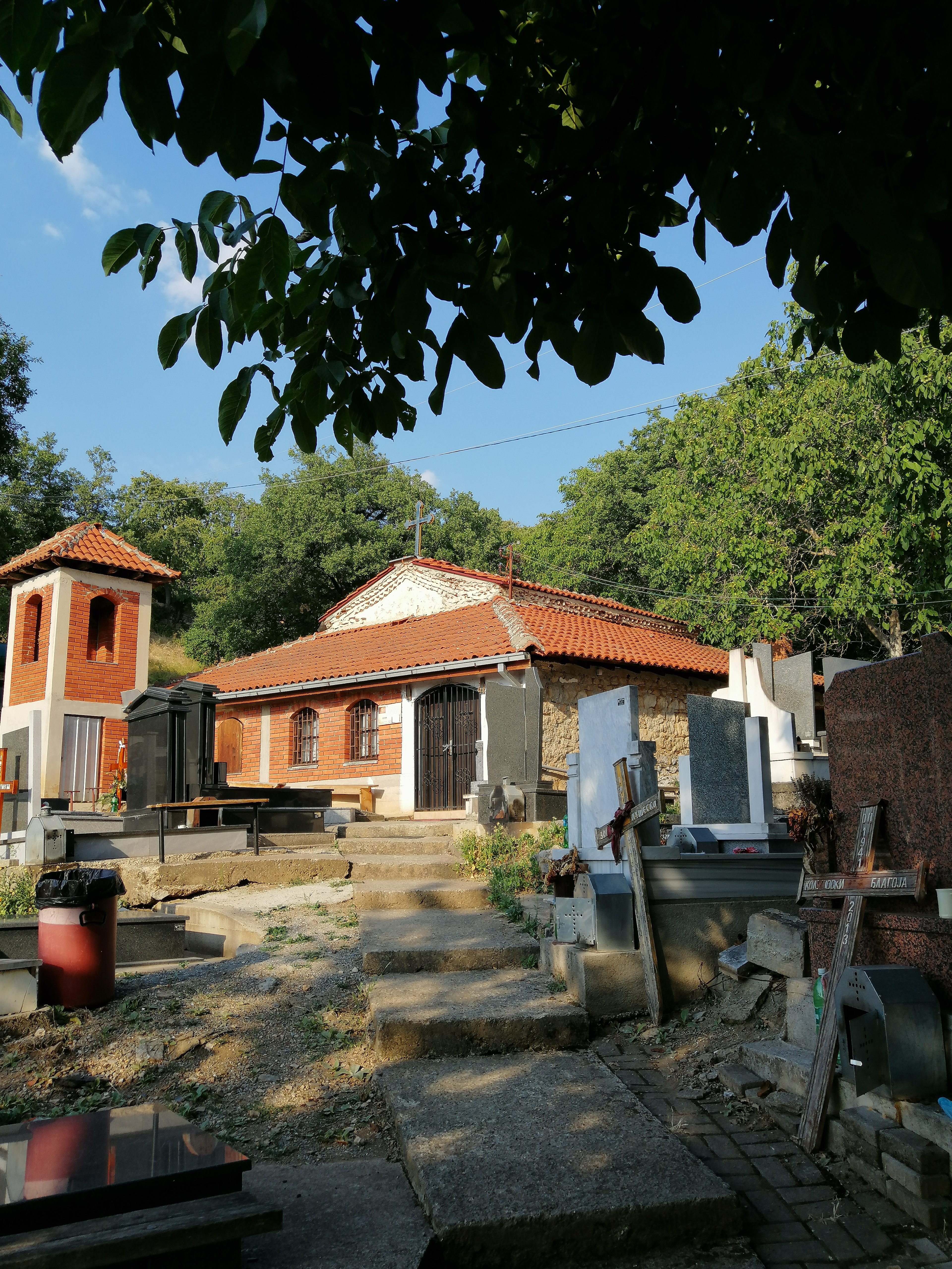 View of the Church of the Ascension of Jesus in the village Leskoec